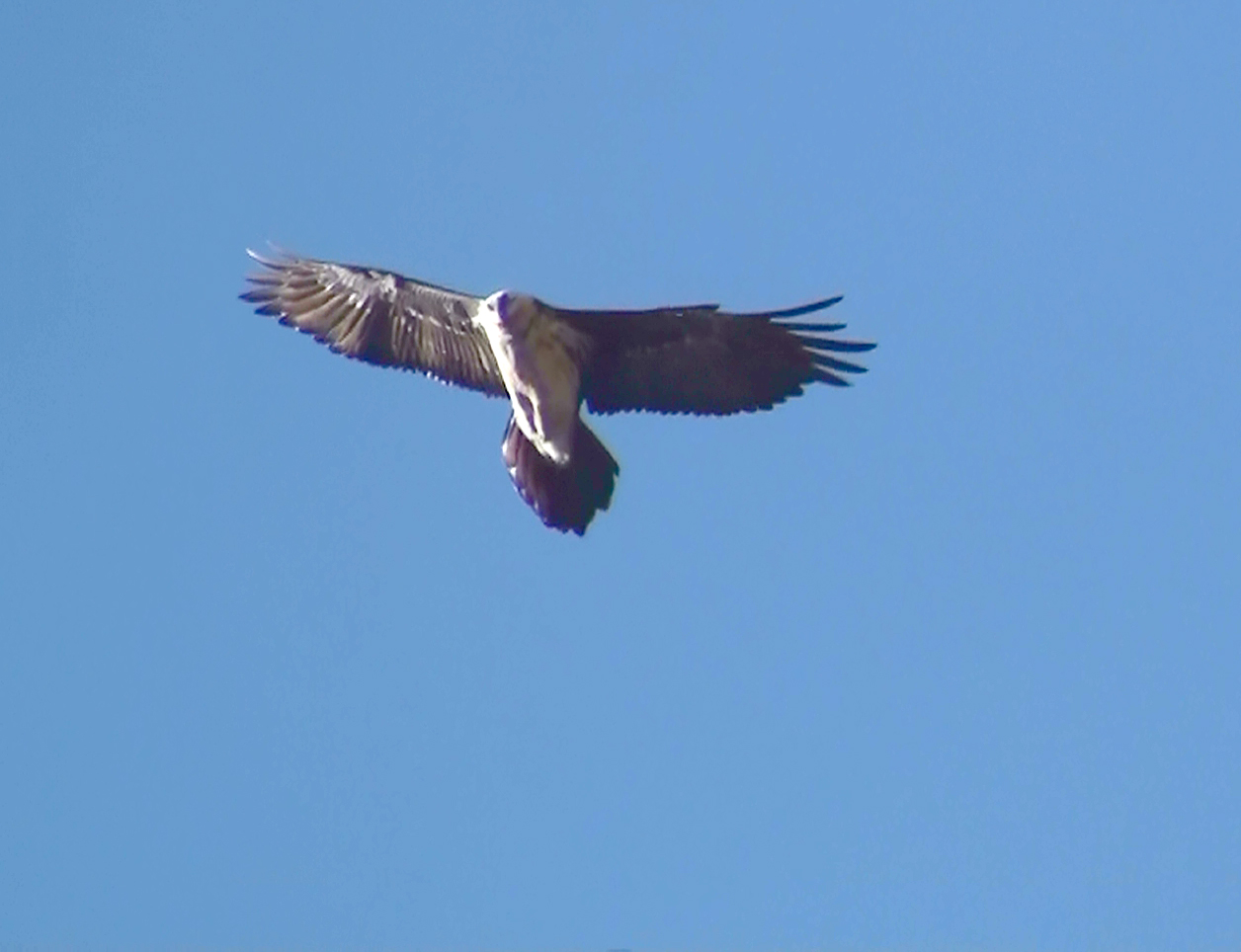 Adult Lammergeier or Bearded Vulture Gypaetus barbatus, in flight in the pre-Pyrenees of Lleida, Catalonia.